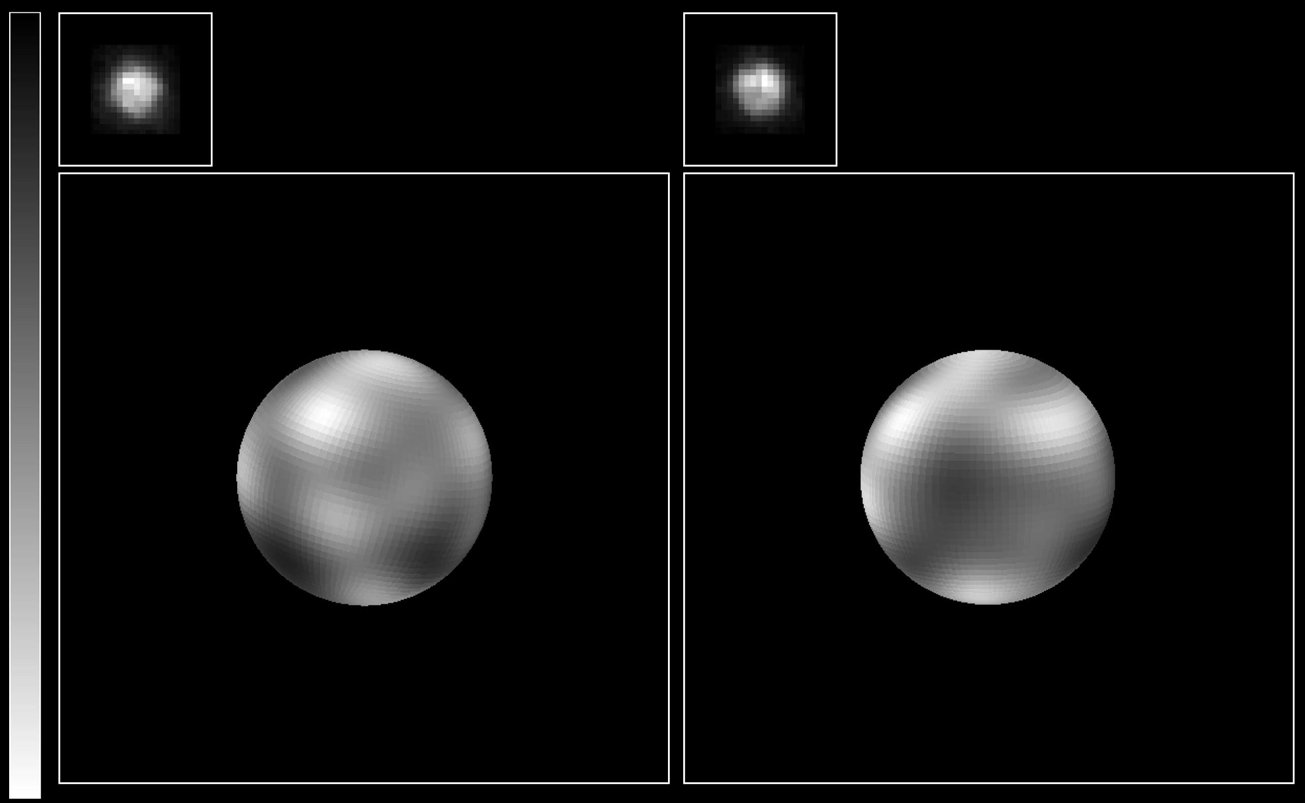 Description (July 1994) Images of Pluto taken by the NASA Hubble Space Telescope with the ESA Faint Object Camera. These images, taken in late June and early July, 1994 are the first views which allow resolution of features on Pluto's surface. Opposite hemispheres are seen on the left and right. The large lower images are processed versions made from a number of Hubble observations. The smaller images at the top are actual raw images, each pixel is over 150 km across. The variations in brightness may be due to topographic features and/or surface composition, frost layers, and interactions with Pluto's nitrogen-methane atmosphere. Pluto is 2390 km in diameter and north is up. ID: PLAN-PIA00825